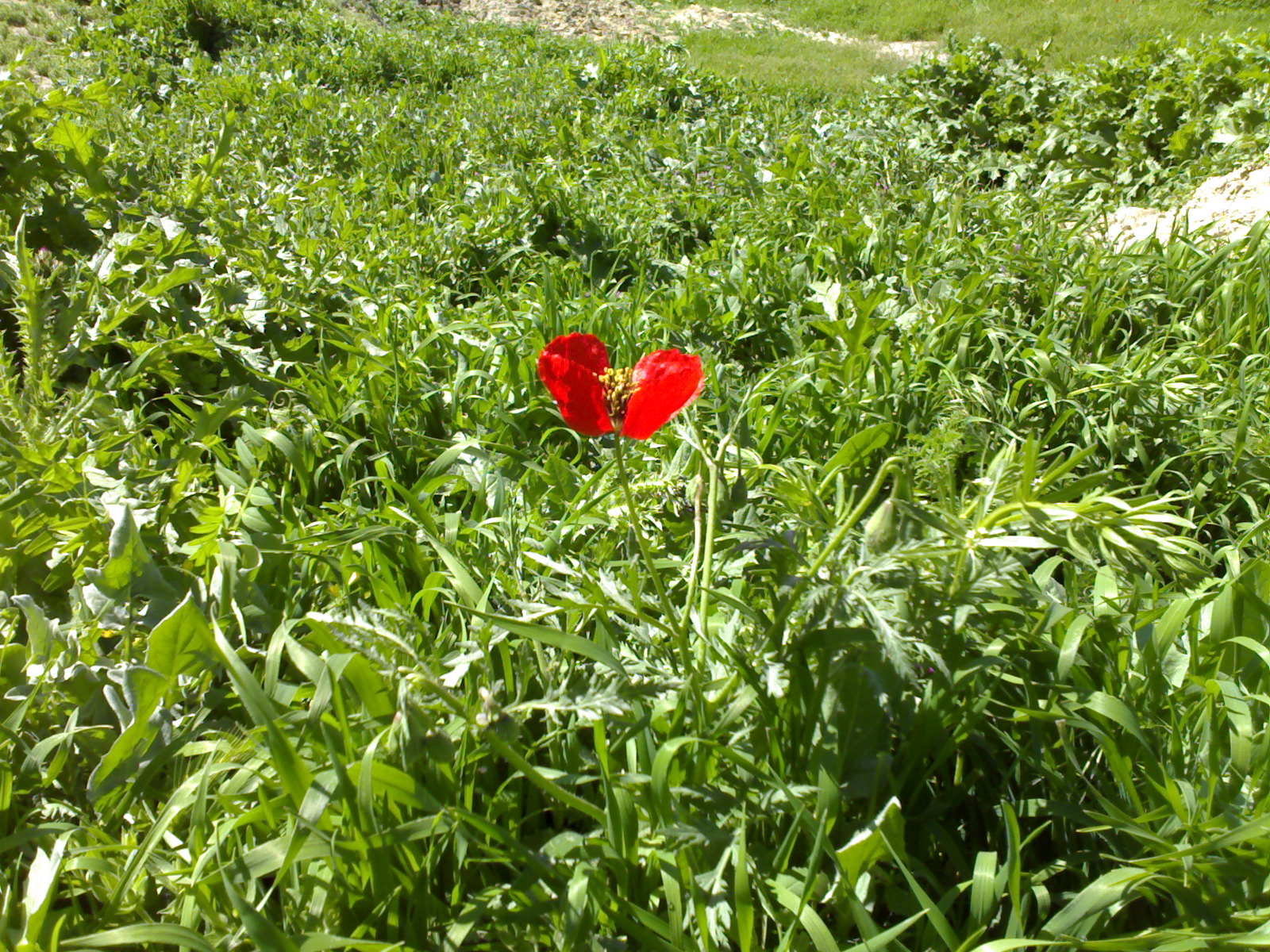 جاذبه هاي توريستي مريك